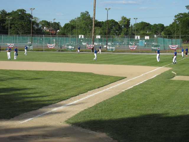 Right Field at the Leary Field baseball park in Portsmouth, New Hampshire.